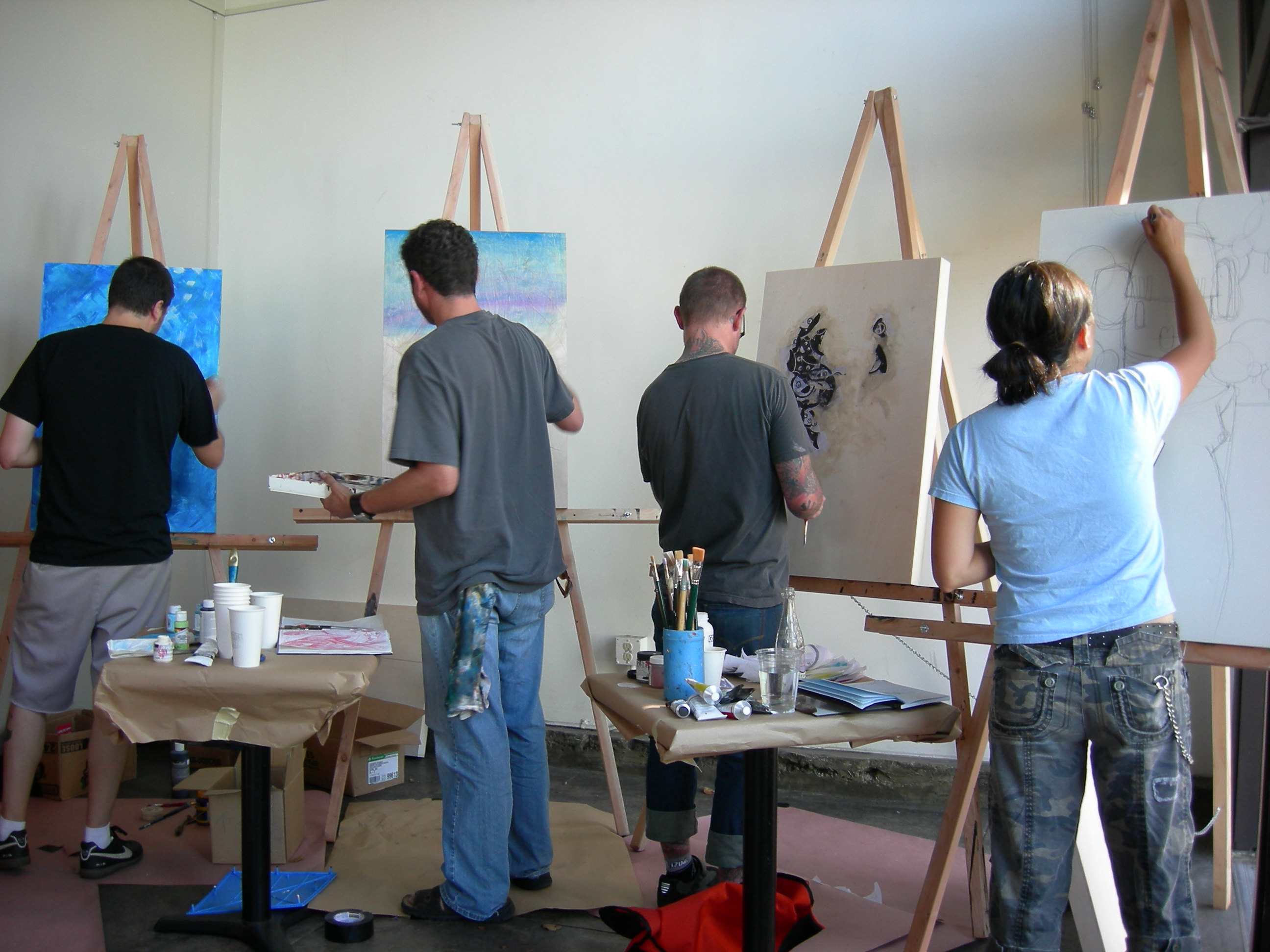 Artists at All City Coffee, Tashiro-Kaplan Building, Pioneer Square, Seattle, Washington on the first Thursday in July 2007. First Thursday is the traditional evening for Pioneer Square gallery openings. On this particular First Thursday, rather than open a conventional show All City Coffee hosted a group of painters creating works on the spot.